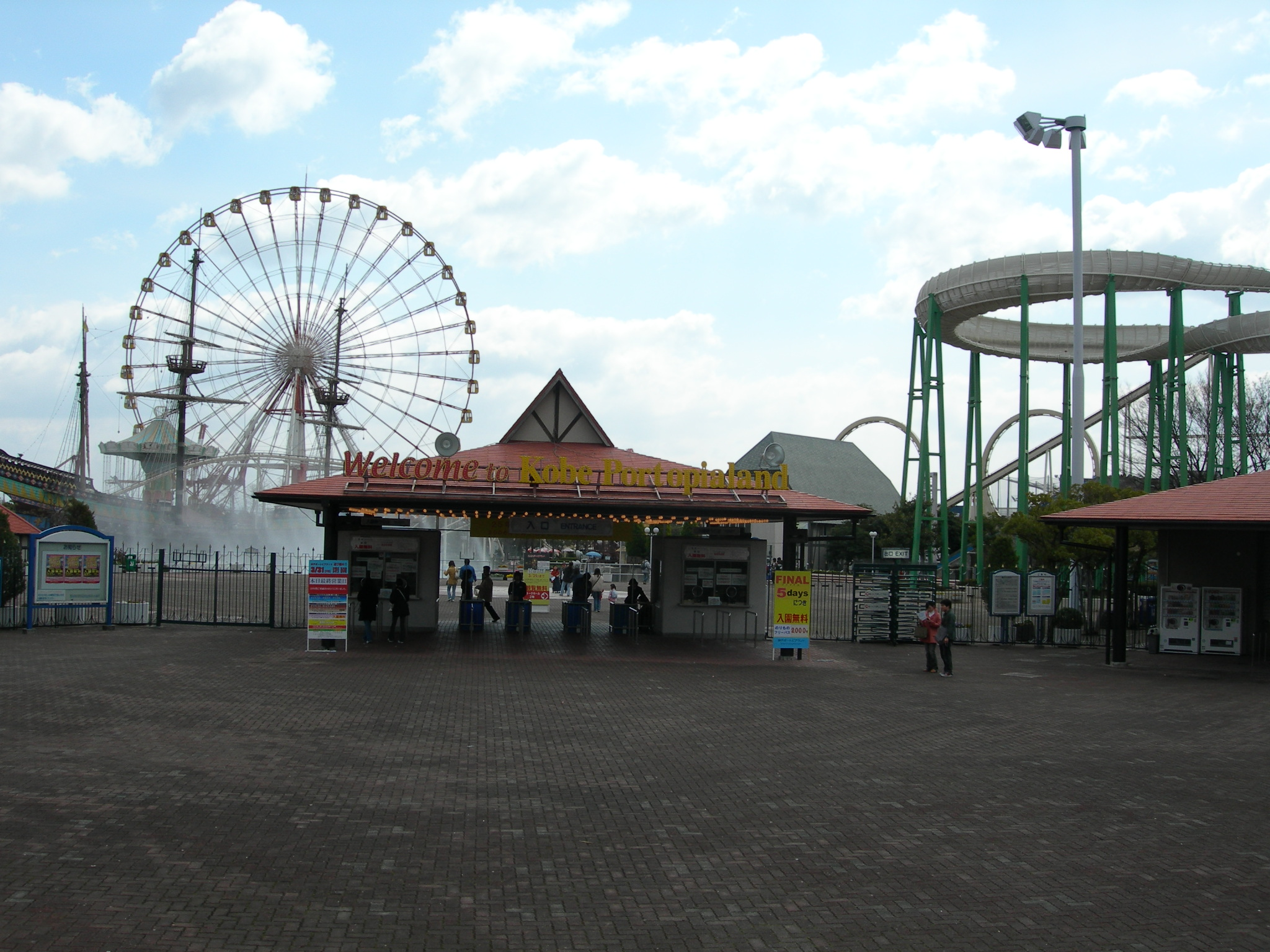 Last Day of Kobe Portopia Land (Part 1). taken in 2006.